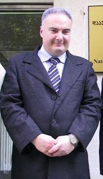 National Center for Desease Control - Director of the Center Paata Imnadze, MInister of Health Vladimir Chipashvili, Senator Lugar and Ambassador Miles.